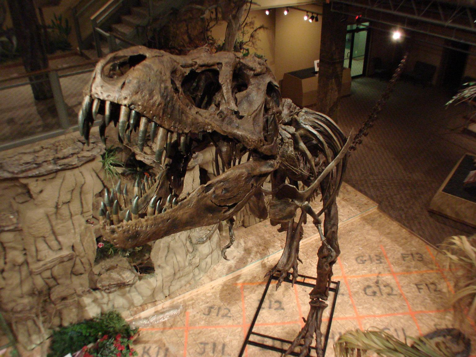 "Stan" the T-rex, on exhibit at the Glendive Dinosaur and Fossil Museum.